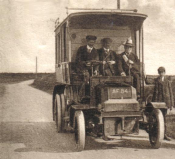 Early Great Western Railway bus AF84 working service from Helston railway station to The Lizard, Cornwall, United Kingdom.